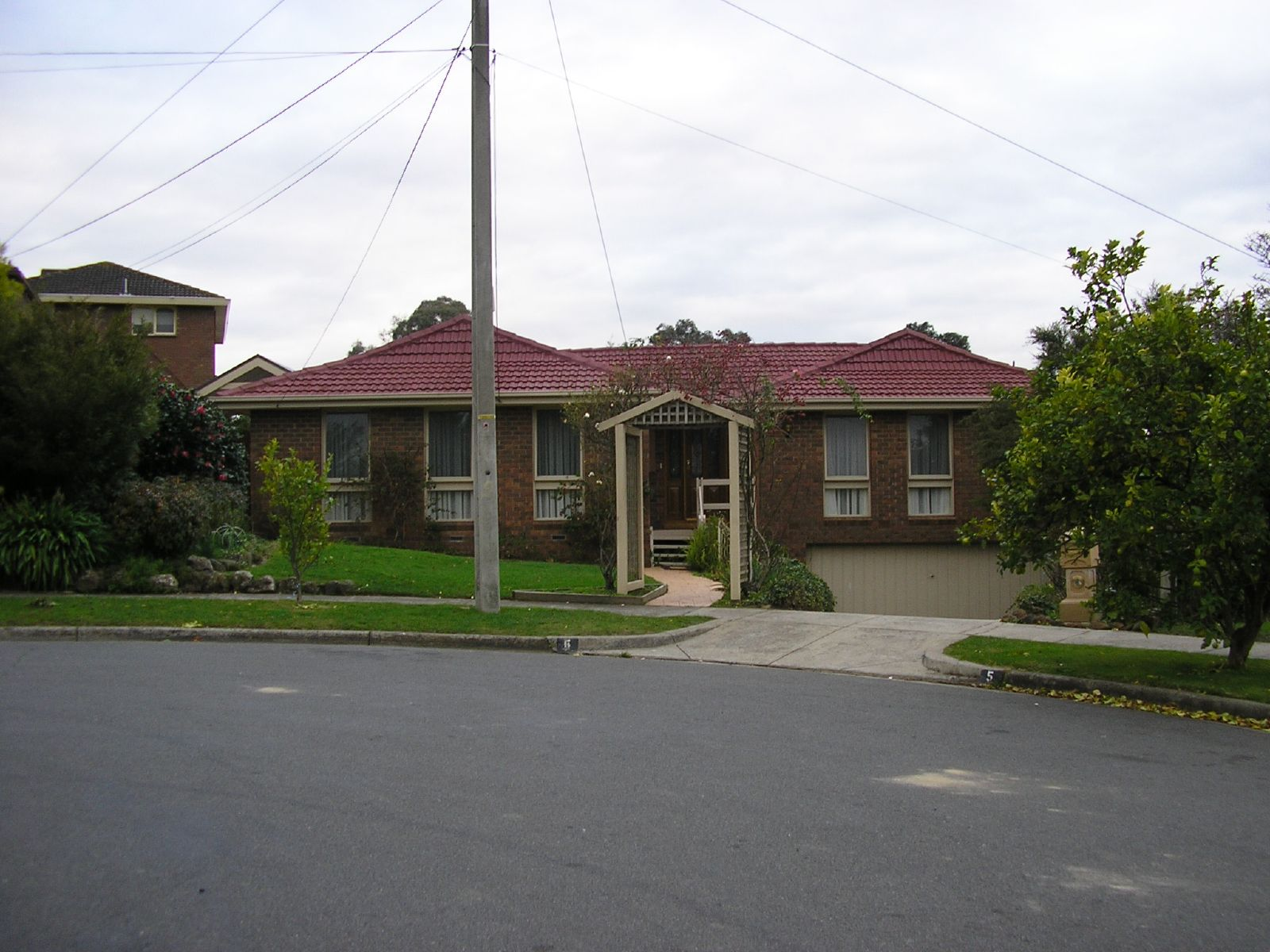 The house where the Kennedy family live in the Australian soap opera Neighbours.